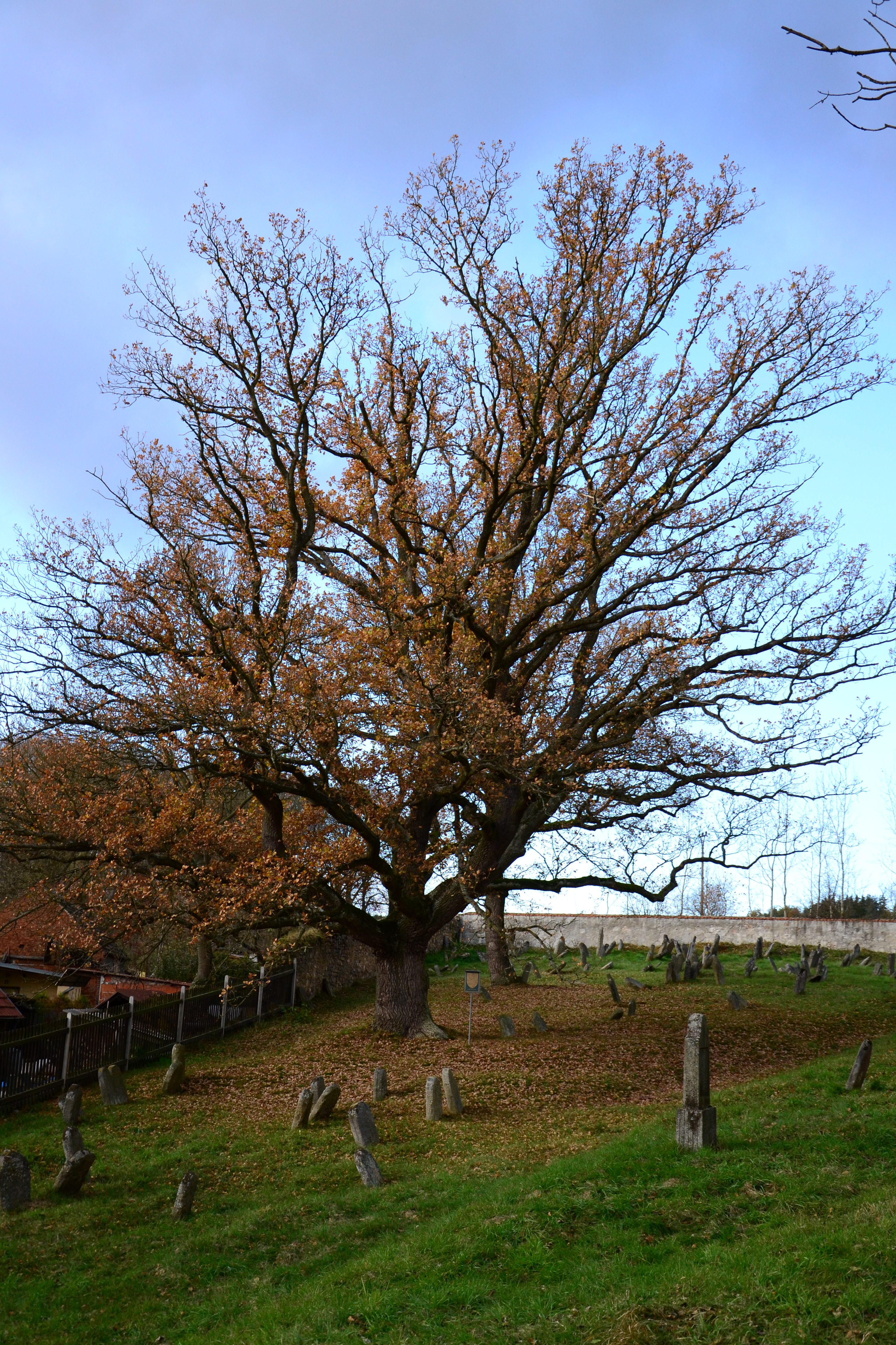 The famous tree at the Jewish cemetery at Mirotice, Písek District, Czech Republic Project: Chráněná území.